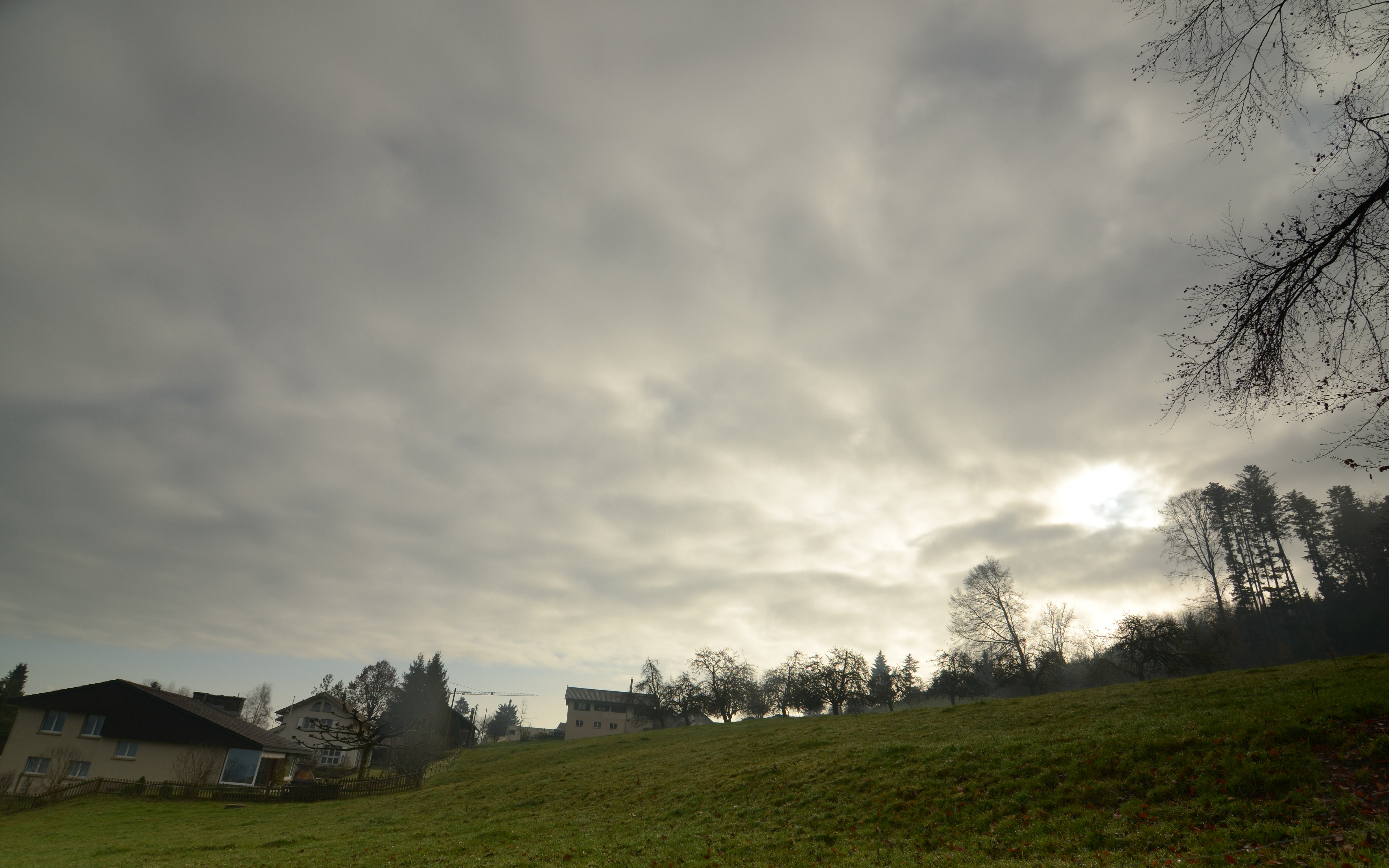 Soft Stratocumulus, spread over a large part of the sky (stratiformis) and still translucent enough to allow localizing the position of the sun (translucidus). Some hours later the sky was covered by a thick Stratus layer. There was no wind.